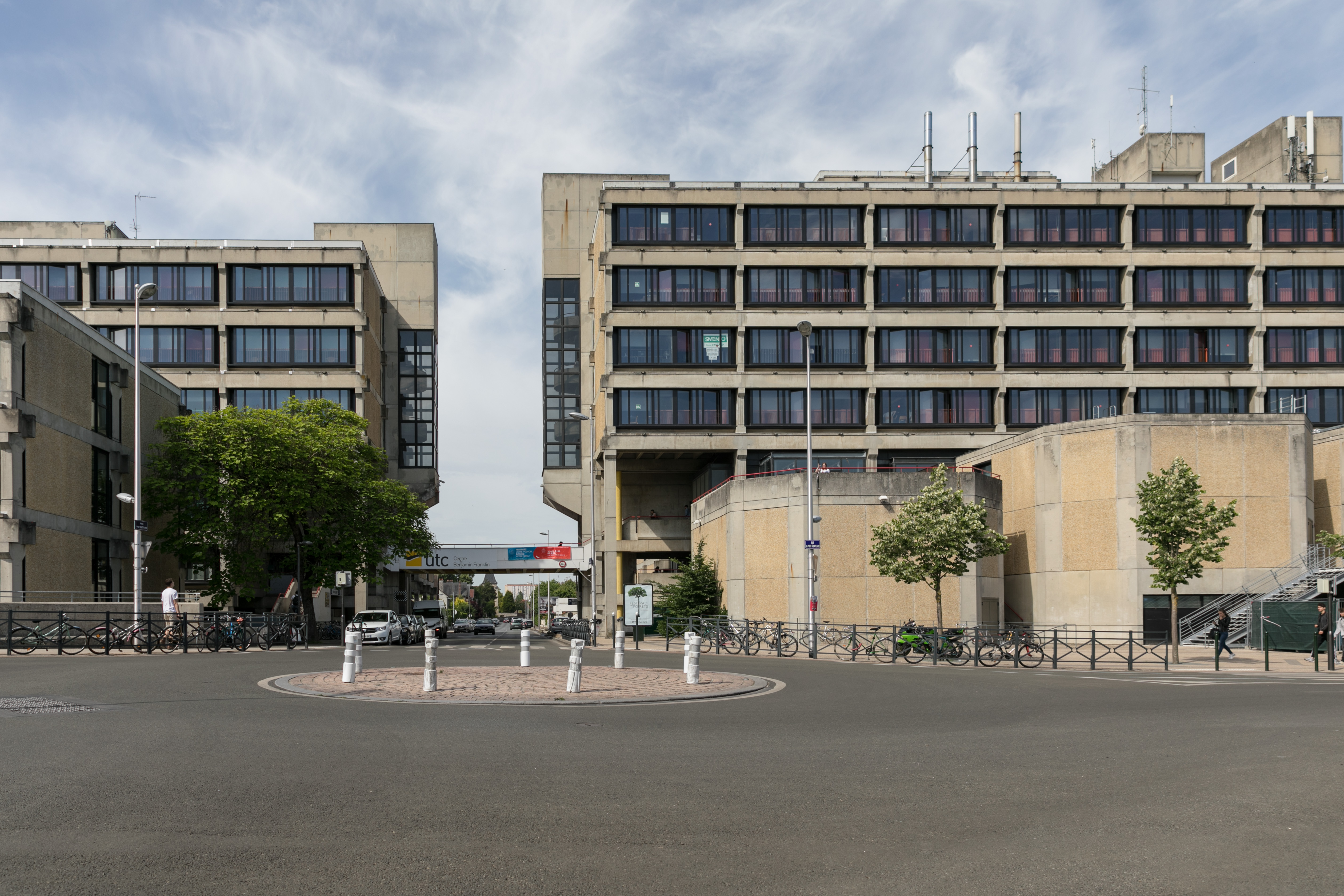 University of Technology of Compiegne - center Benjamin Franklin from the traffic circle in the city center of Compiegne